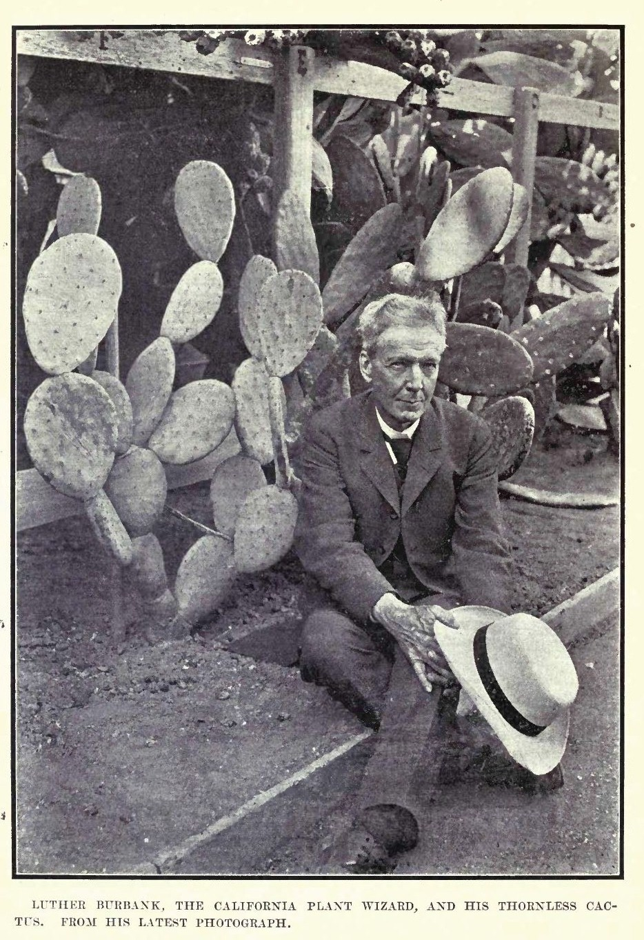 Renowned horticulturalist Luther Burbank, with his hybrid Spineless Cactus (Opuntia ficus-indica) — from the Frontpiece of the Overland Monthly, September 1908.